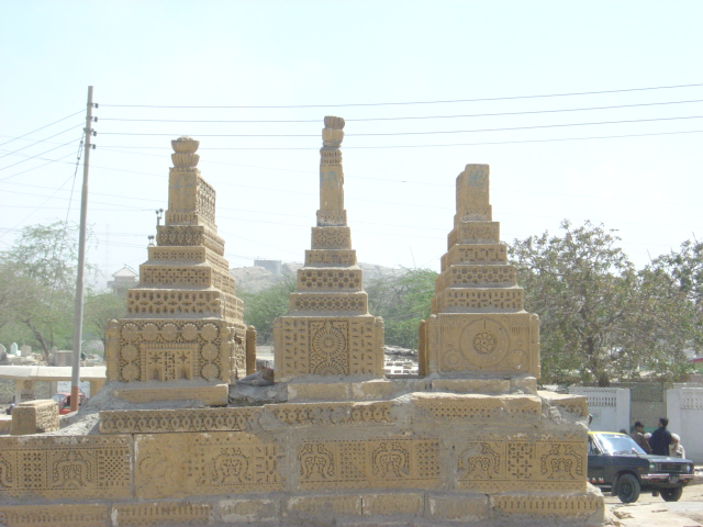 Shrine of Pir Mangho (Manghopir) This is a photo of a monument in Pakistan identified as the SD-U-25